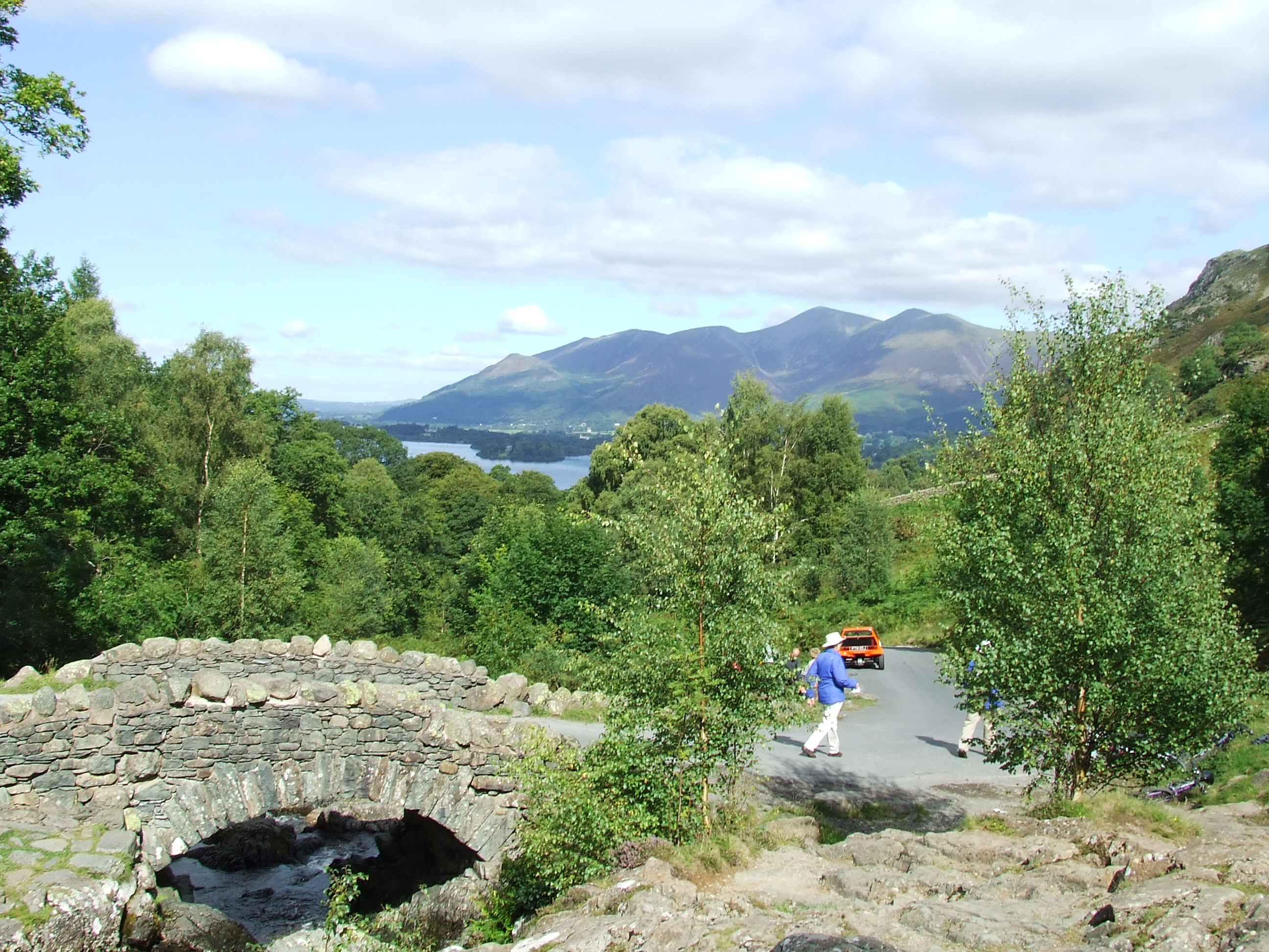 Ashness Bridge